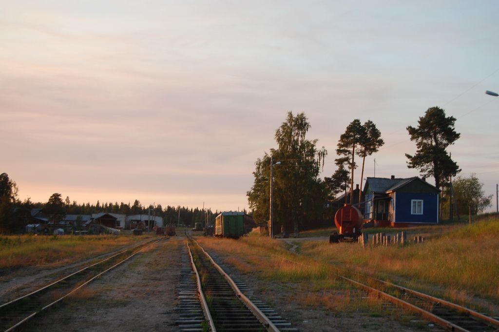 Станция Белое Озеро